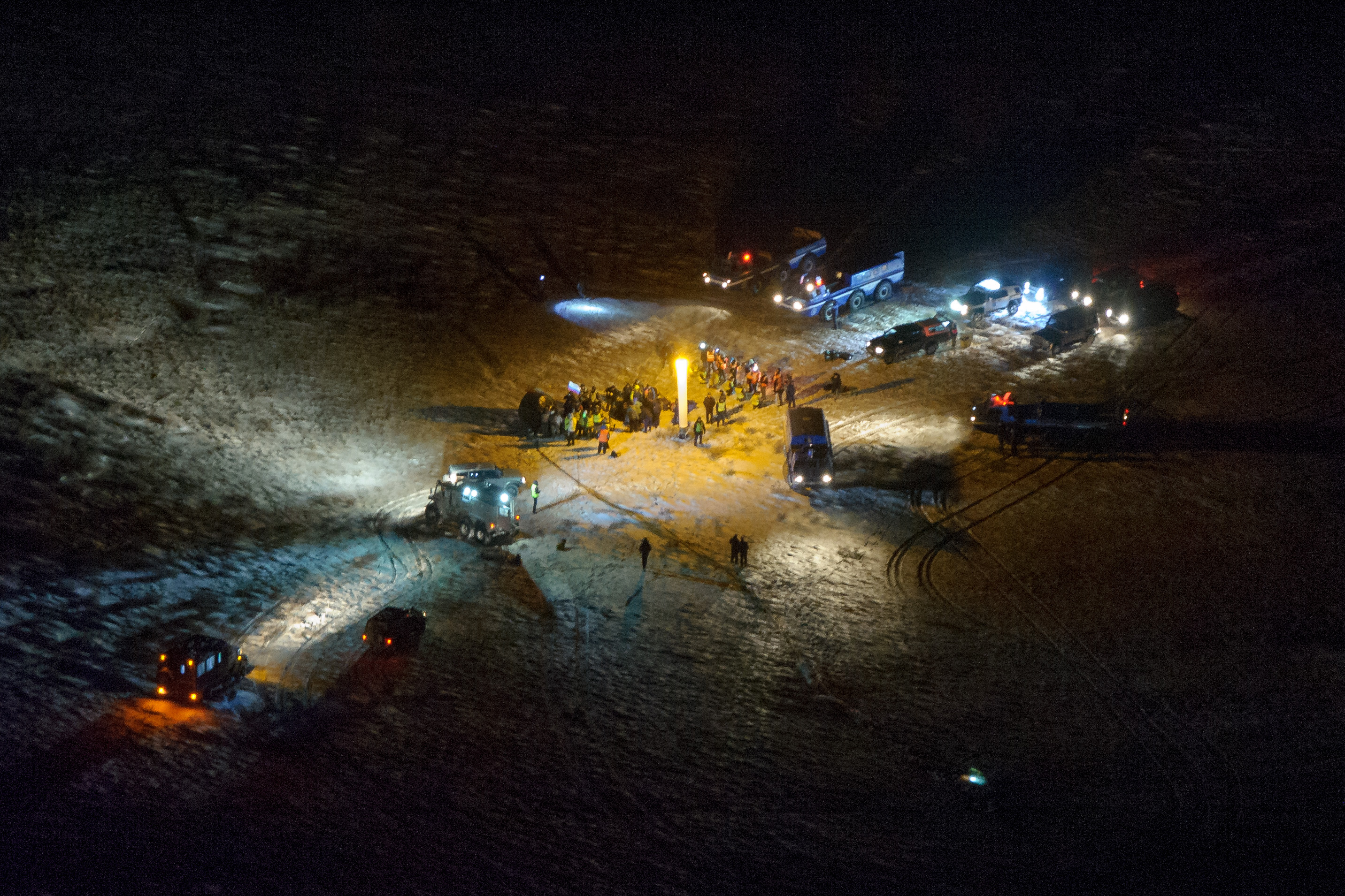 The Soyuz TMA-17M spacecraft landing site is seen shortly after the capsule landed with Expedition 45 crew members Oleg Kononenko of the Russian Federal Space Agency (Roscosmos), Kjell Lindgren of NASA and Kimiya Yui of the Japan Aerospace Exploration Agency (JAXA) near the town of Zhezkazgan, Kazakhstan on Friday, Dec. 11, 2015. Kononenko, Lindgren, and Yui are returning after 141 days in space where they served as members of the Expedition 44 and 45 crews onboard the International Space Station.